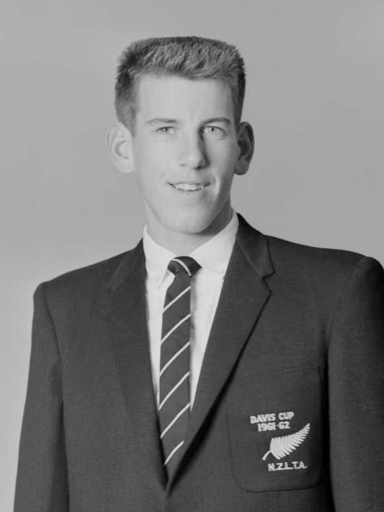 I S Crookenden, New Zealand Lawn Tennis Association Davis Cup representative